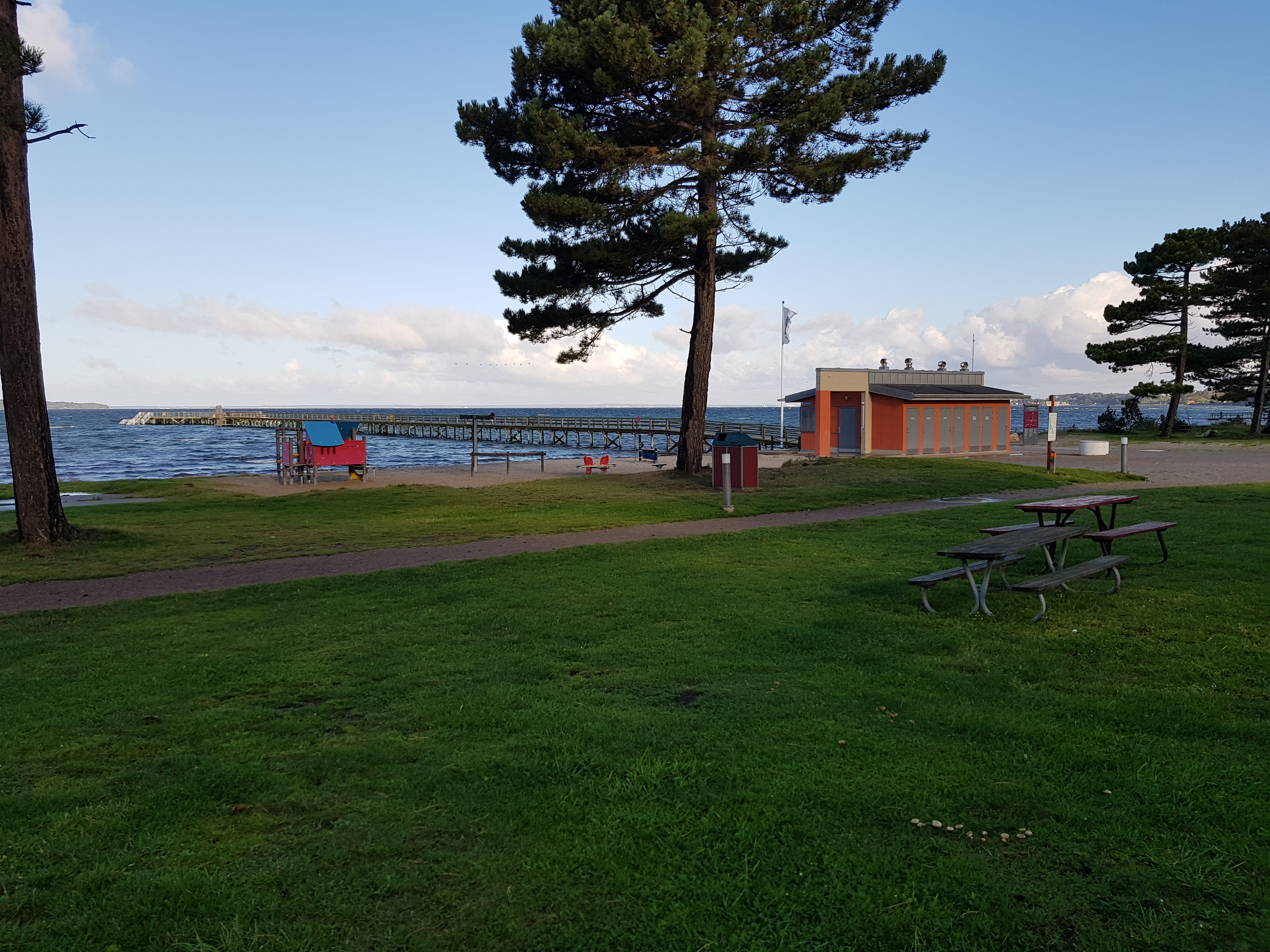 Lill-Olas in Landskrona, Sweden.